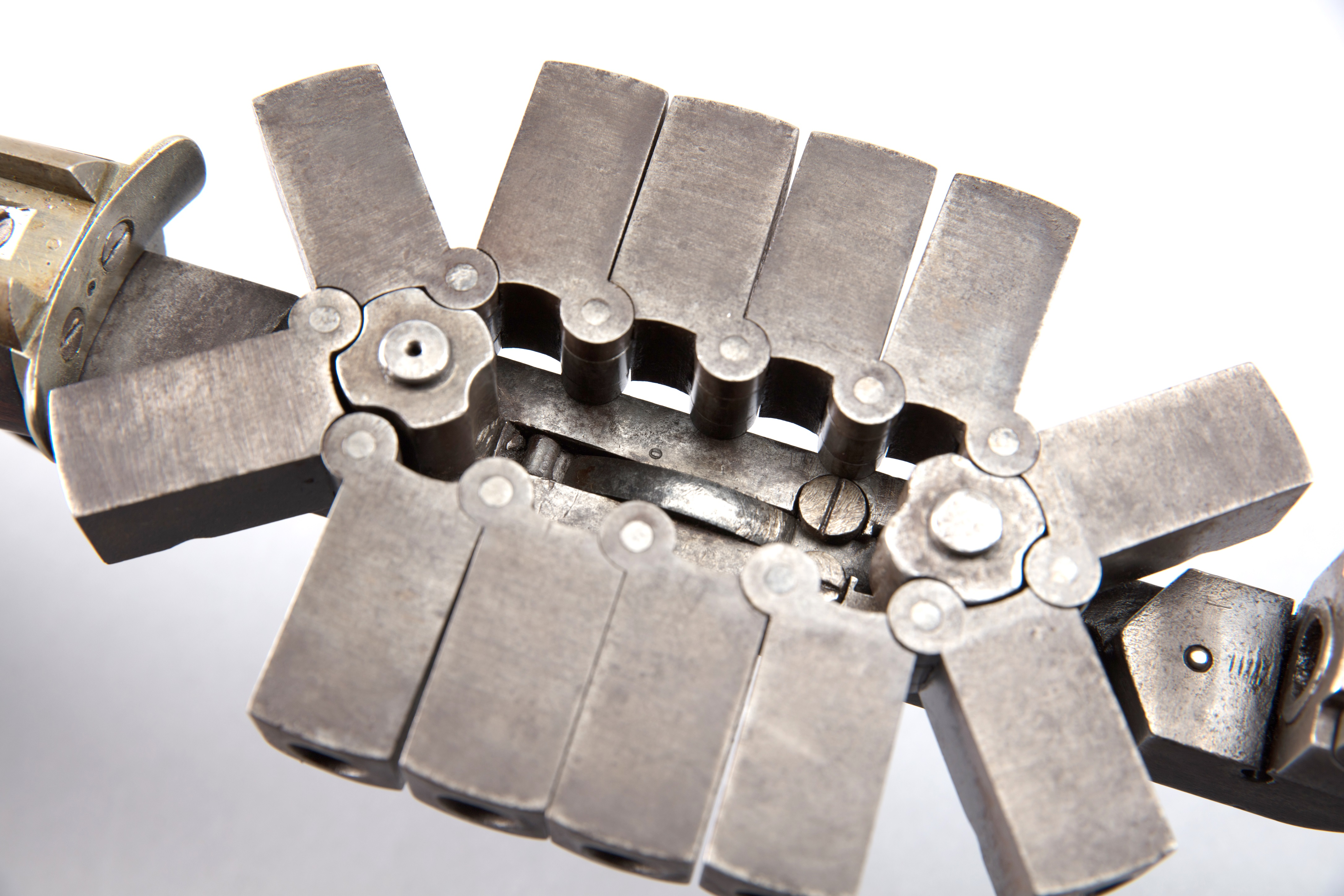 Bennett & Haviland Many-Chambered Revolving Rifle repeating mechanism